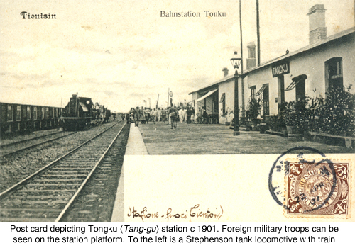 Post card of Tangku railway station (Which name is Tanggu South/Tanggunan Station now.), China 1901 一张展示塘沽火车站的明信片